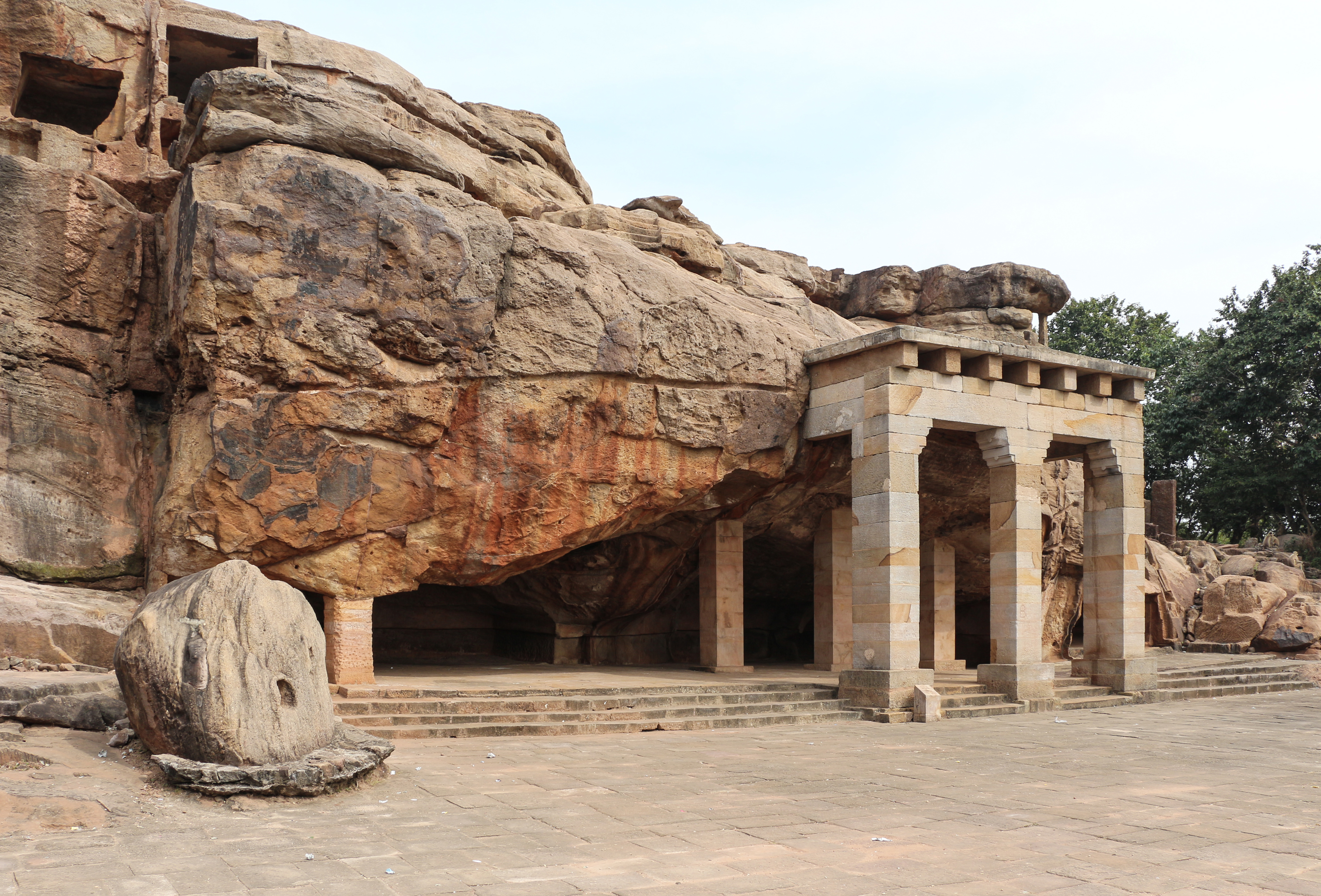 Hathi Gumpha, Udayagiri Caves, near Bhubaneswar, India